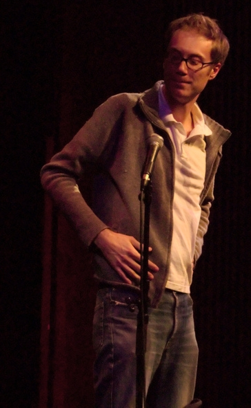 Stephen Merchant on stage.